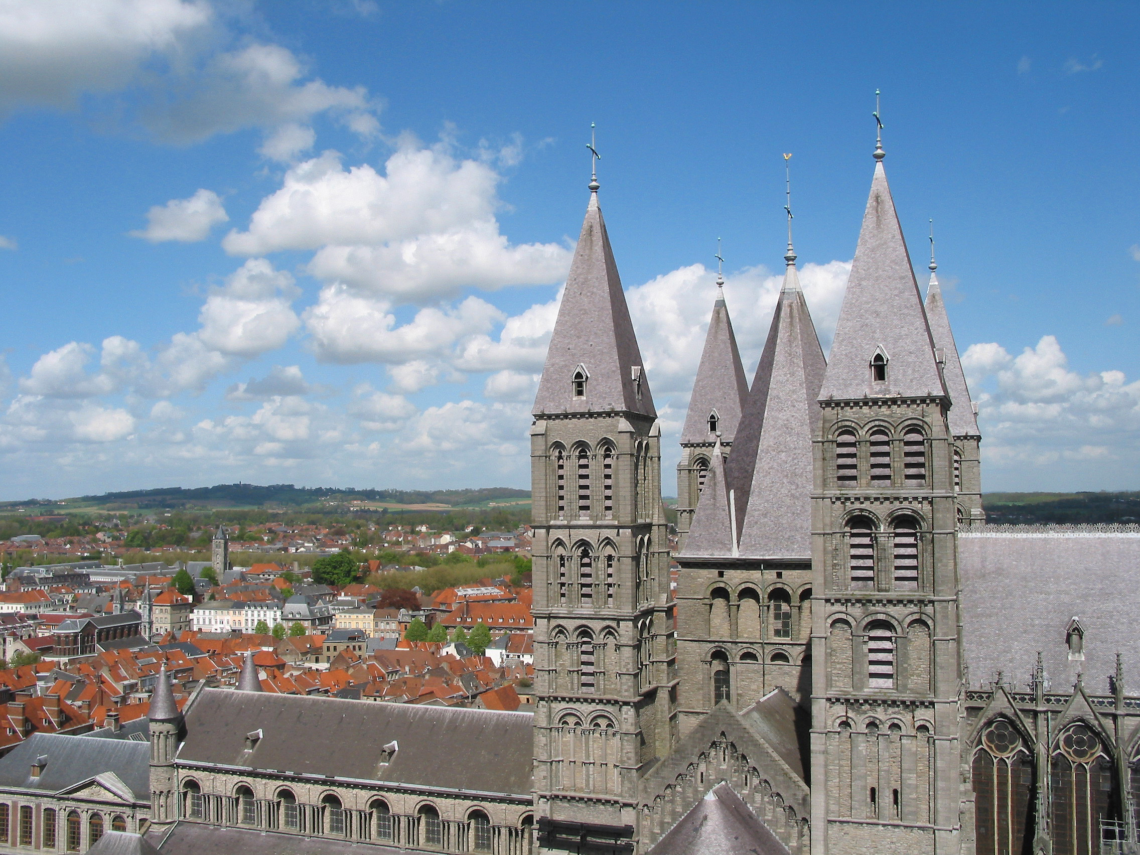 Tournai (Belgium), the early roman nave and the five towers of the Notre-Dame cathedral (XIIth century).